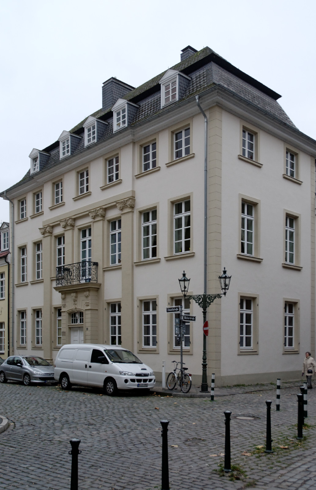 House Citadellstraße 14 in Düsseldorf-Carlstadt, Germany